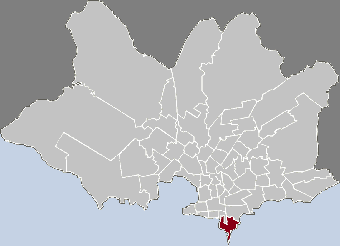 Map highlighting the given barrio in Montevideo.